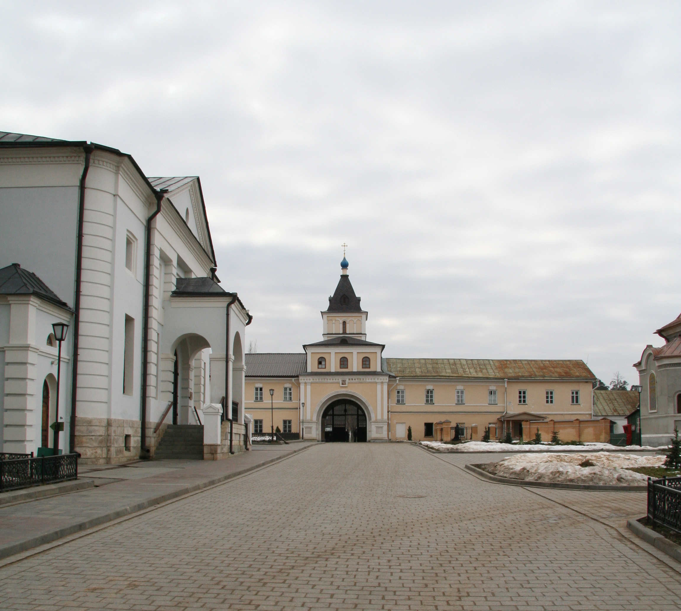 Holy gates of Optina Pustyn'